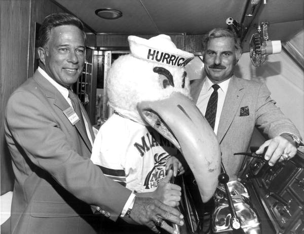 Coach Howard Schnellberger